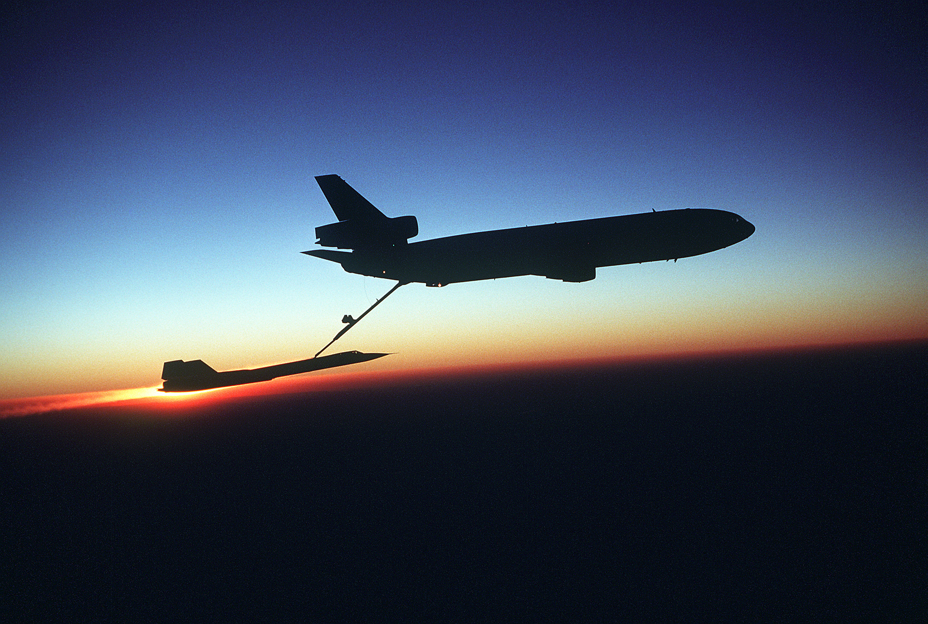 A right side view of a KC-10 Extender aircraft refueling an SR-71 Blackbird aircraft in-flight during testing. The Extender, silhouetted against the sunset horizon, is from the 78th Air Refueling Squadron, and the Blackbird, the 9th Strategic Reconnaissance Wing.